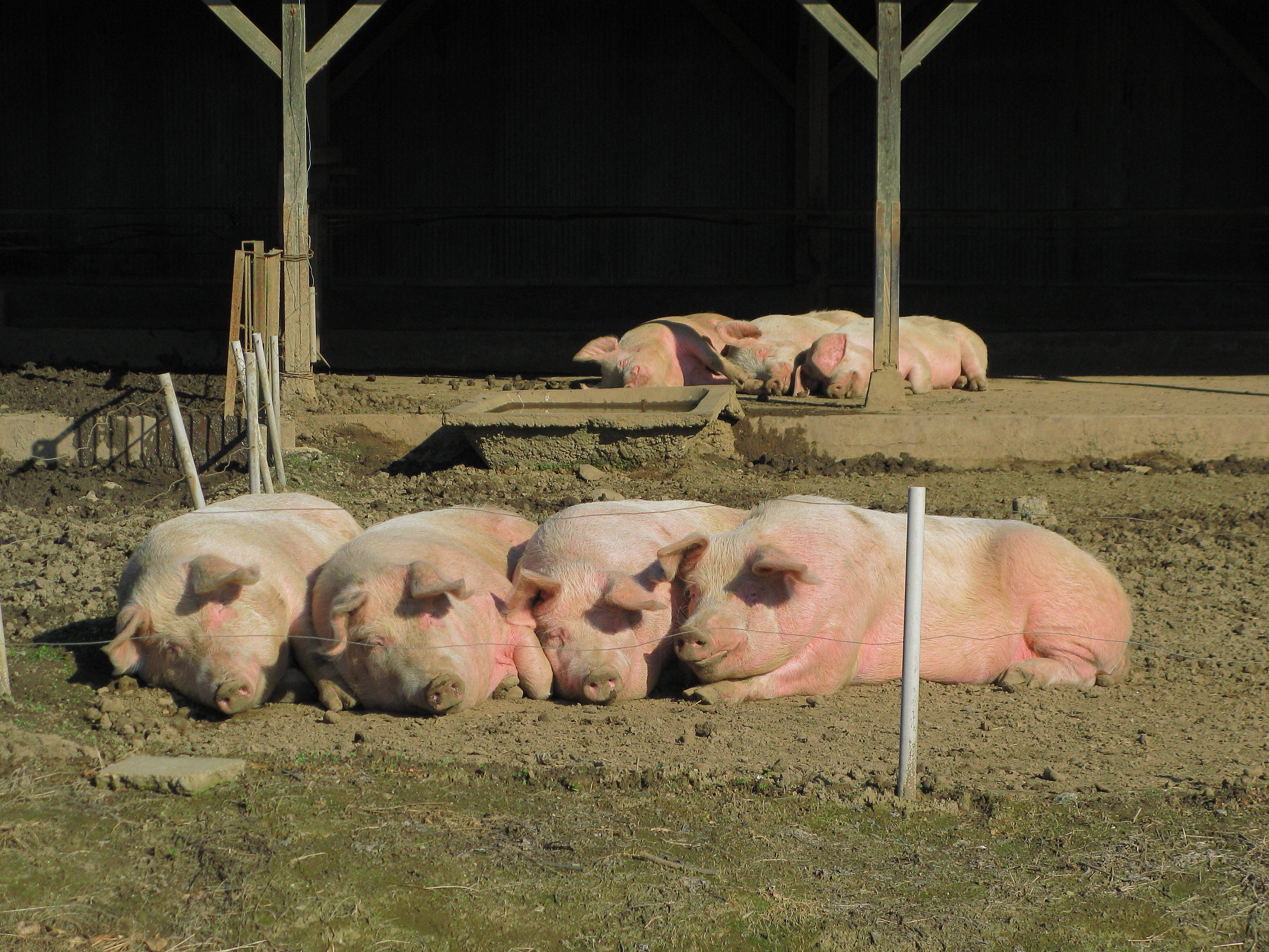 Domestic pigs in a farm in Saitama Prefecture